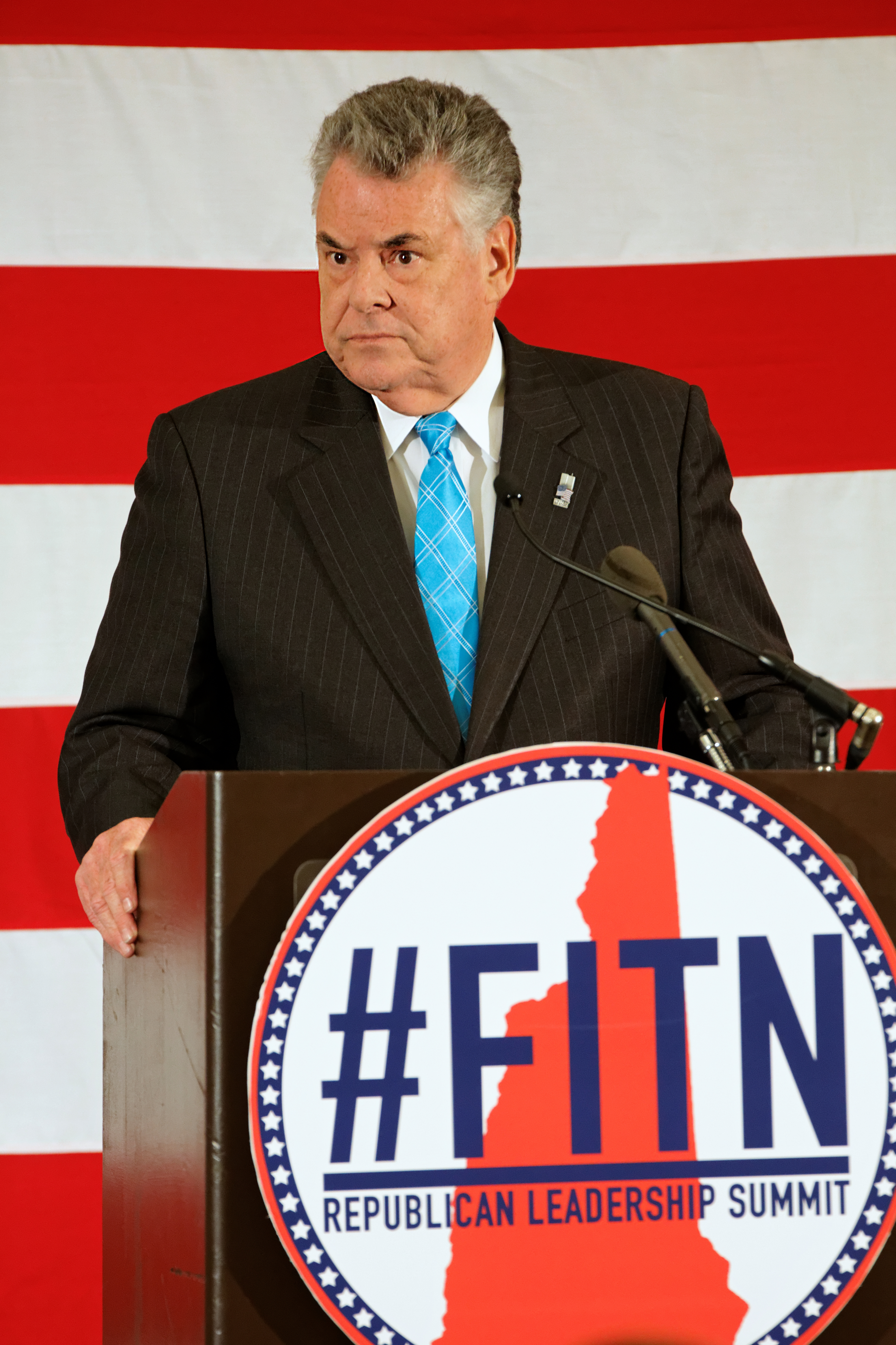 Nashua, NH